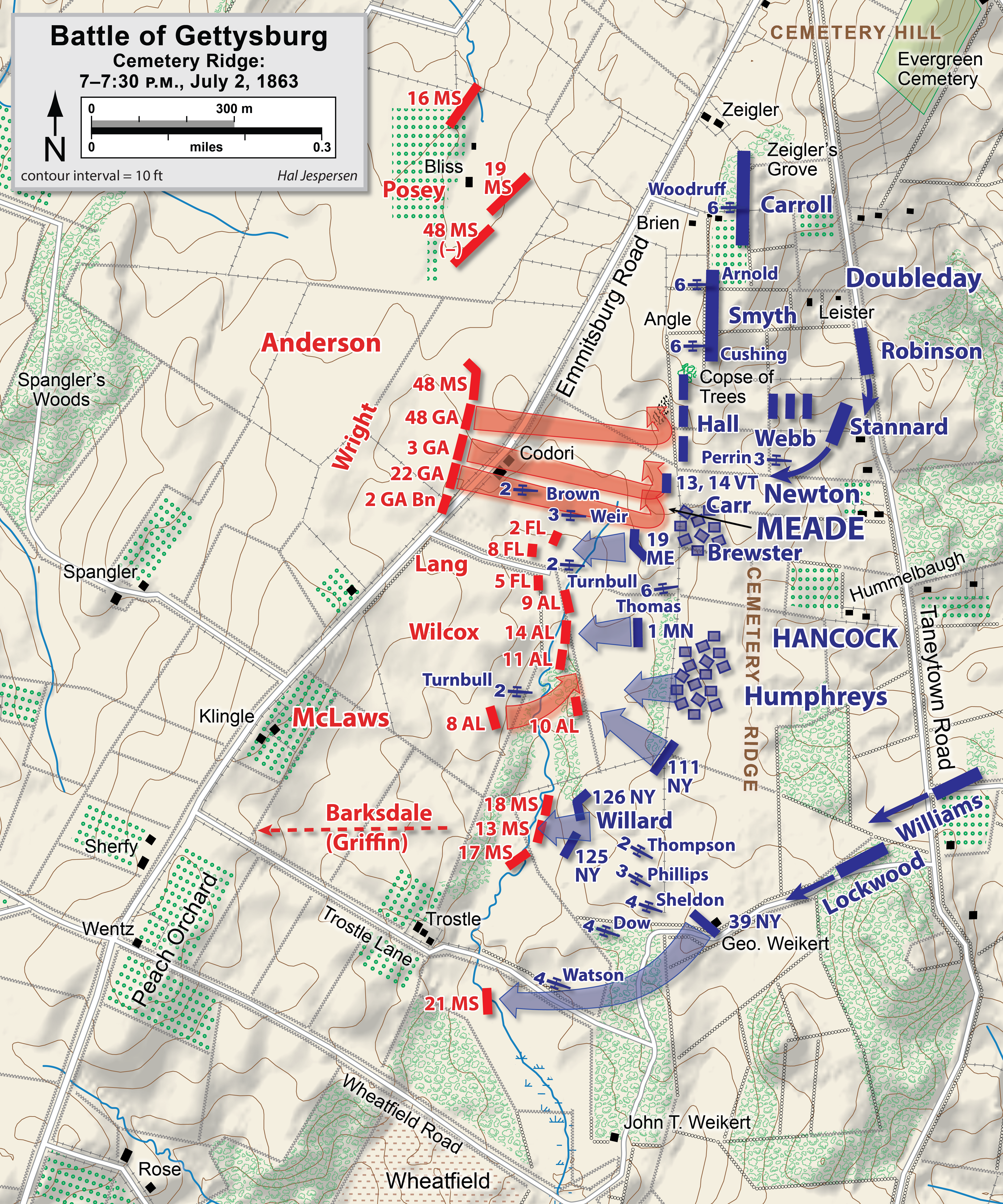 Map of Cemetery Ridge actions in the Battle of Gettysburg, Second Day, of the American Civil War. Updated unit positions and made topographical background consistent with many other Wikipedia Gettysburg maps. Drawn in Adobe Illustrator CS5 by Hal Jespersen. Graphic source file is available at